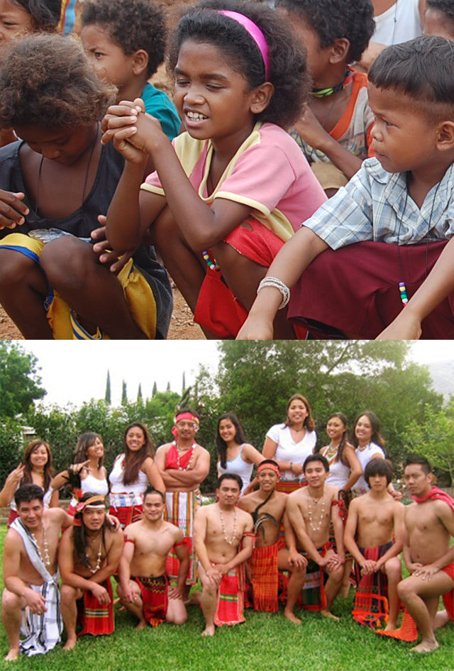 Aeta At IgorotAno ang totoong Aeta.Ang Aeta ay matatagpuan sa lugar ng Zambales. Sila ay maitim, kayumanging kulay at pango, kulot ang buhok na manipis at tumatangkad sila ng limang talampakan. Ang mga Aeta ay mayapang naninirahan hangang sa dumating ang mga Kastila at sinakop sila. Naki pandarayuhan naman ang mga Kastila at ang mga Aeta hangang sila ay dumami. Karamihan sa mga Aeta ay nasakop ng mga Kastila, Ang iba naman ay nasa bulubundukin sapagkat sila ay nag tatago sa mga bundok. Ang mga nasakop naman ng mga Kastila ay pina aral sila ng salita na ito'y tinawag na Tagalog.Pagkatapos naman ng pag sakop ng mga Kastila sa mga Aeta sa Zambales, Nag patuloy umano ang mga Kastila sa pag lakbay hangang sa nakarating sa lugar na tinawag na Cordilleran. Una nilang napuntahan ang lugar ng Benguet at Bontoc mountain province . Ang mga Kastila ay tinawag nila ang mga tao sa mga Cordillerans na Ygoroti. Ang mga kastila ay hindi nila nakayanan ang pag sakop sa mga taga taga Cordillerans, Sapagkat namumugot umano ng ulo ang mga taga Cordillerans at meron na natangalan sa kanila ng ulo, Kaya ang mga Kastila ay natakot sila at tumakas nalang at bumalik sila ng Maynila. Ang mga taga Cordillerans naman ay tinawag nila na sila ay IGOROT. Ang mga Igorot ay namumula ang kanilang balat. may kayumanging namumula at may mapuputing namumula. ang iba naman ay pula ang kanilang mga pisngi. Ang kanilang buhok naman ay makakapal na unat na deretso at ang iba naman ay may katamtaman na hindi masyadong kulot na parang lumiko lang ng kaunti. Ang kanilang katawan ay malalaki ang kanilang kalamnan. May pango sa kanila at matatangos naman ang kanilang mga ilong. Tumatangkad sila ng lima hangang walong talampakan. Sila ay matatapang at malalakas.Ang Aeta at Igorot ay mag ka iba ang anyo at mag ka iba ang pananamit.